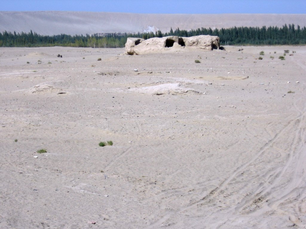 Khotan (Hotan / Hetian) is an oasis city in the Xinjiang Uygur Autonomous Region of the People's Republic of China. Melikawat Ruins.